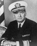 Charles Kenney Duncan